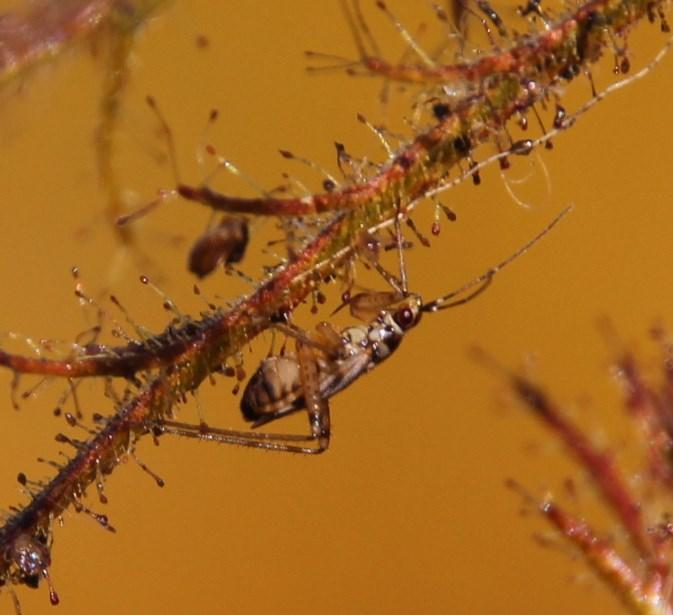 a northern dewstick bug, Pameridea marlothi, on a northern dewstick, Roridula dentata, photographed by Tony Rebelo, on 2 May 2015, at Cedarpeak Flats between Boontjieskraal and Heuningvlei, Clanwilliam County, Western Cape province of South Africa